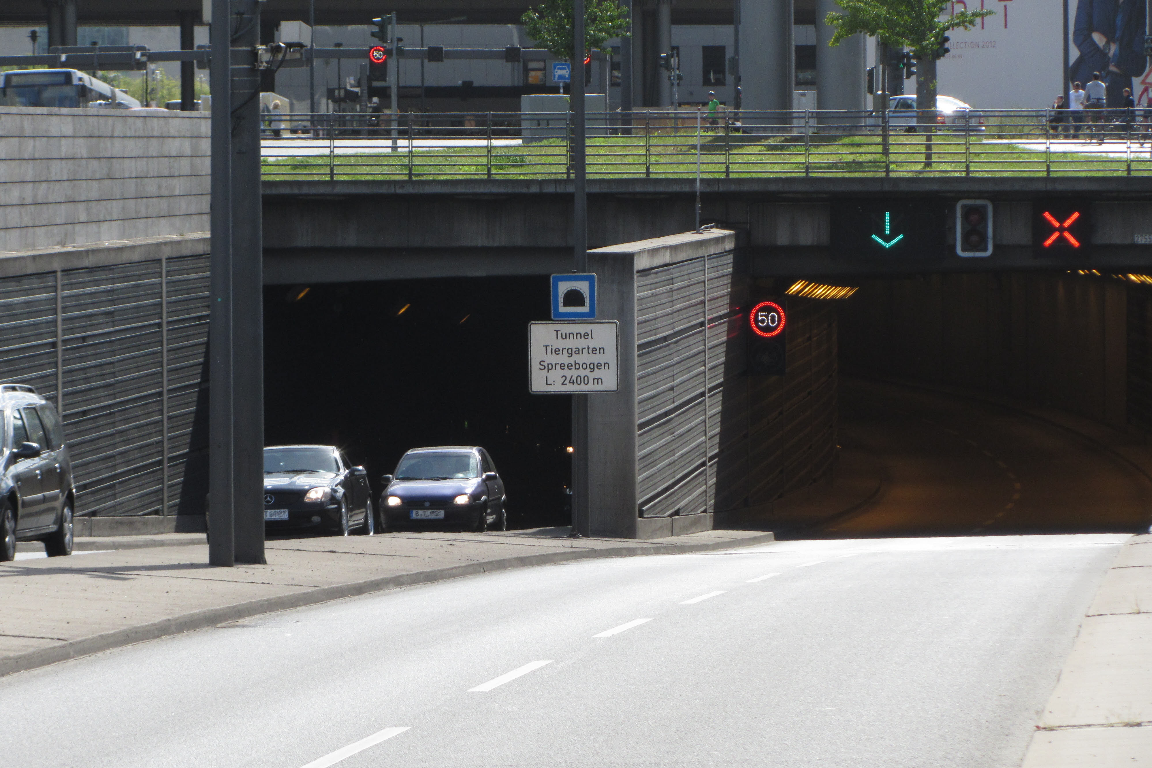 Northern mound of the road tunnel "Tiergartentunnel" leading north south from Moabit, from the north side of the new central railway station to Tiergarten, under the "Spreebogen"